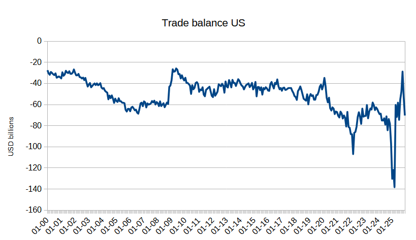 Graph of monthly trade balance figures of the US since 2000, in billions of US dollar, to be updated monthly, used in Handelsbalans, source of the figures: US Department of Commerce